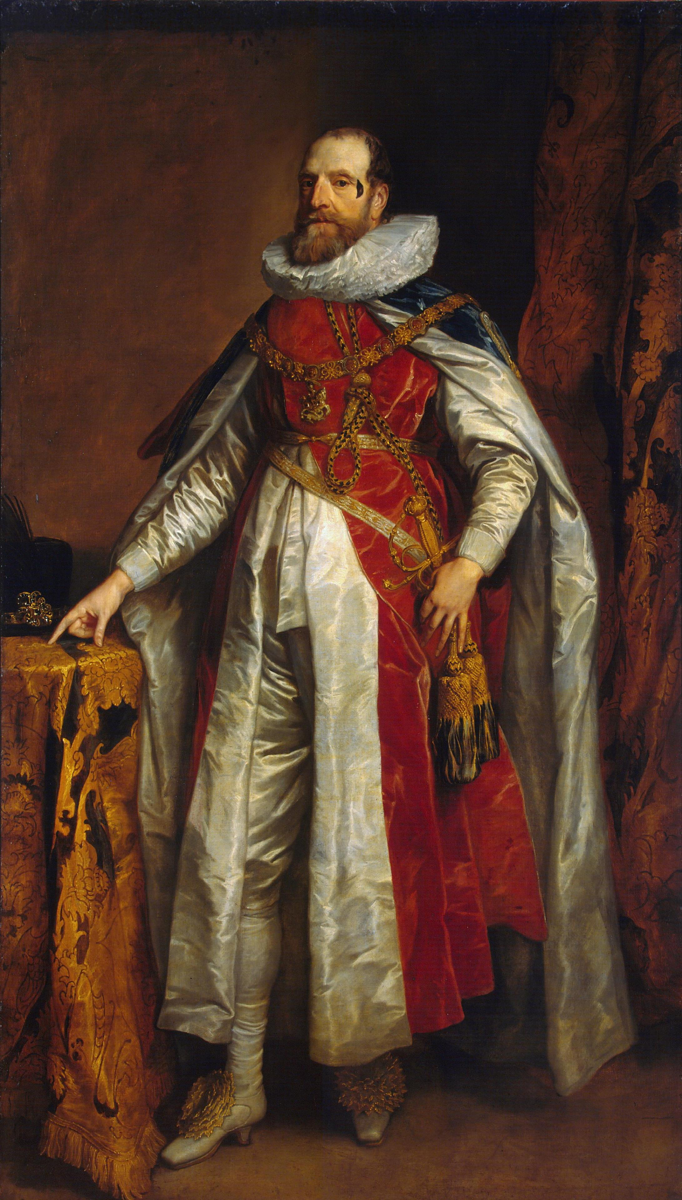 Portrait of Henry Danvers, 1st Earl of Danby (1573-1644), in robes as Knight of the Garter